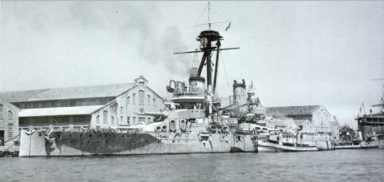 "São Paulo seen in 1942, little altered [from her original configuration]."